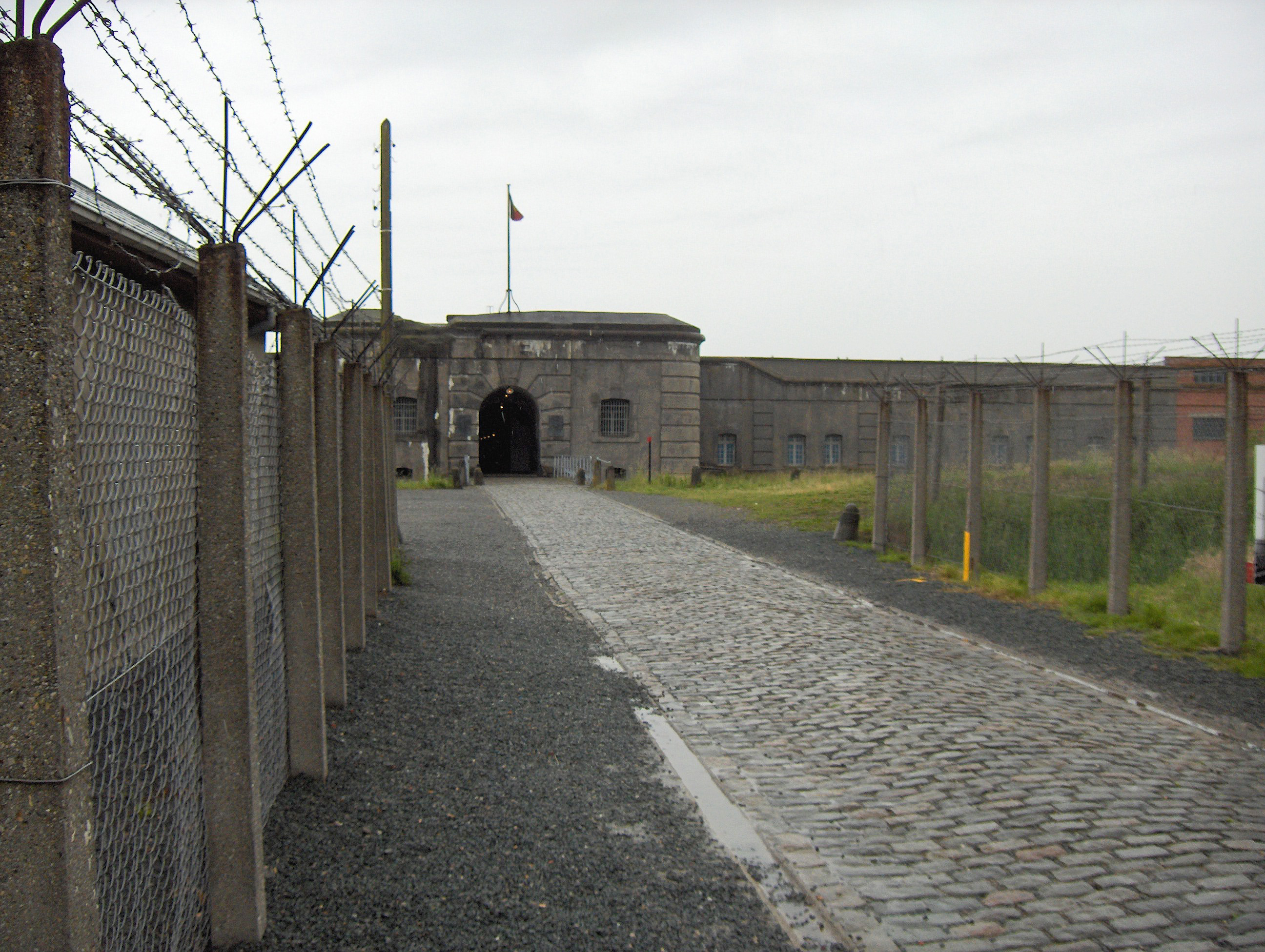 Road to the entrance to the Fort van Breendonk, Belgium